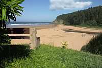 La Griega Beach at Colunga, Principado de Asturias, España